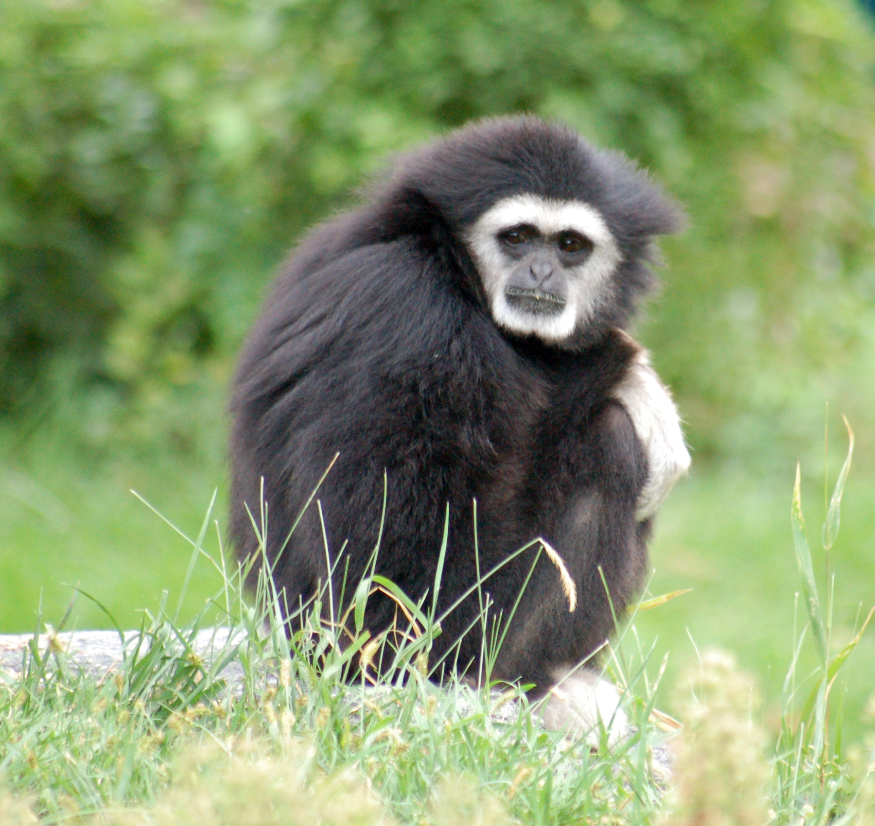 A photograph of a White-handed Gibbon (Hylobates lar). Photo taken at the Philadelphia Zoo where it was identified.